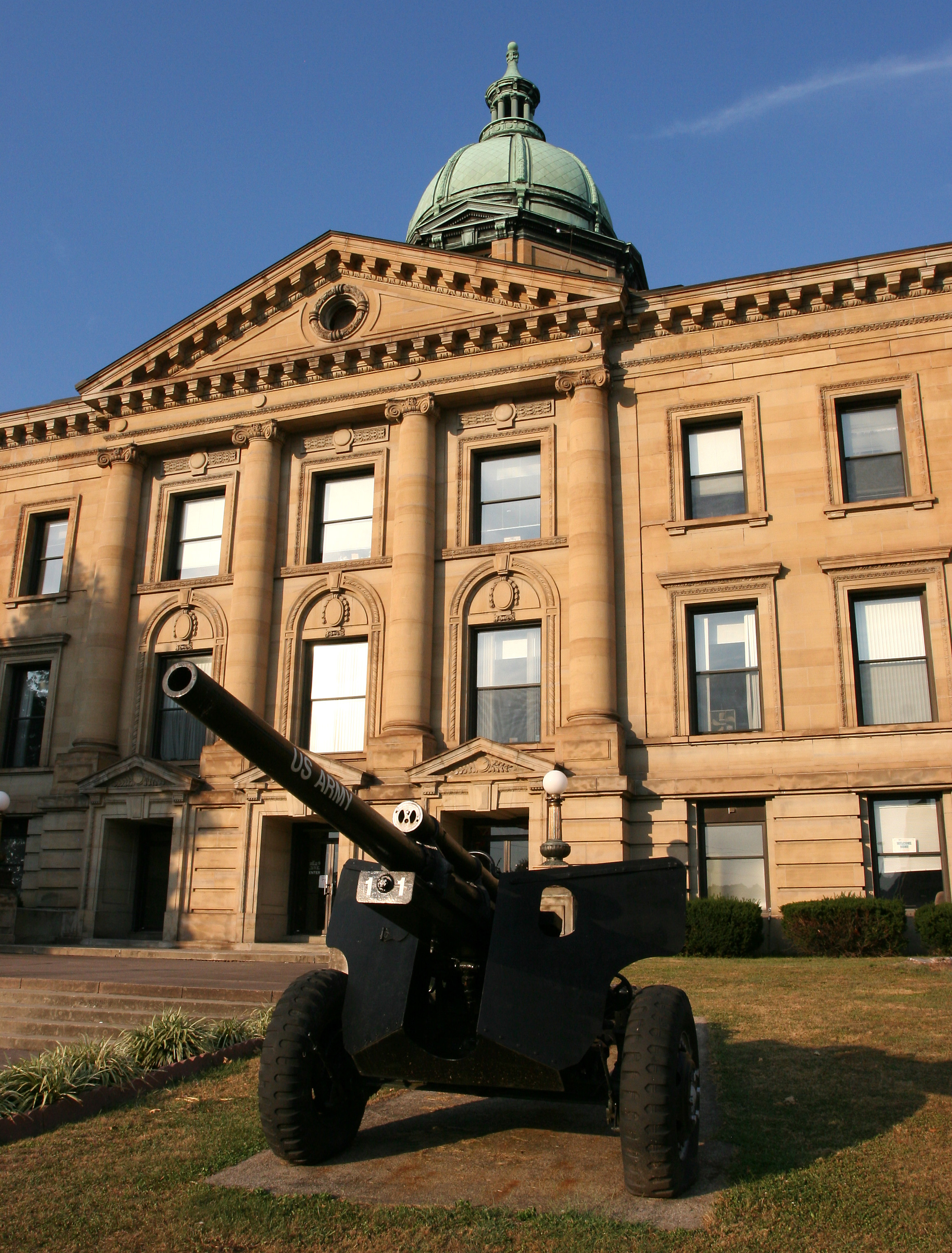 Ironton, Ohio's wonderfully photogenic courthouse. The gun is a 3-inch anti-tank gun M5.